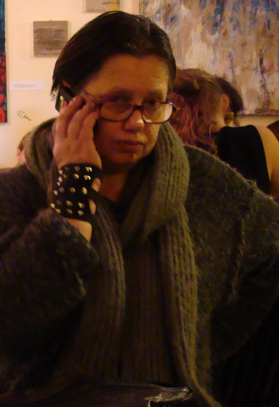 Polish art historian, writer and translator Ewa Mikina (1951-2012)